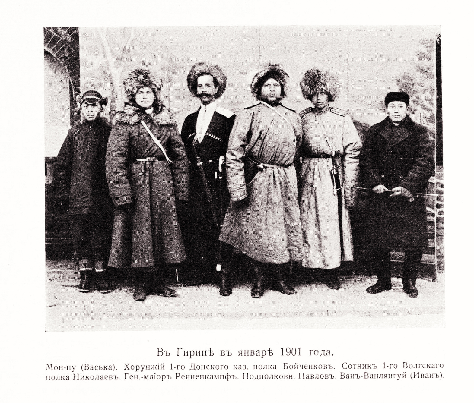 Russian generals in jilin